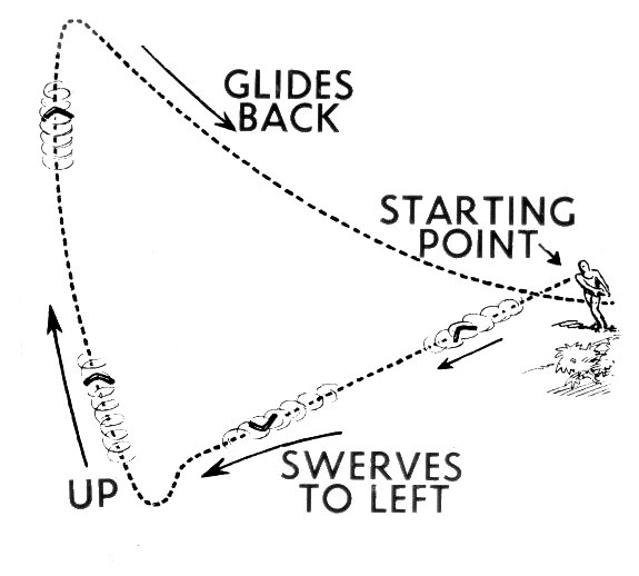 line art drawing